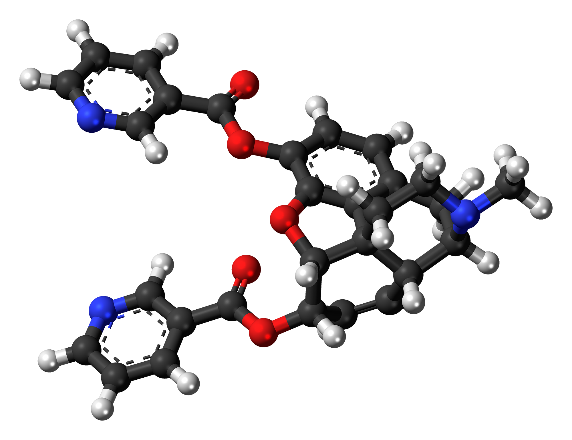 Ball-and-stick model of the nicomorphine molecule, an opioid painkiller. Color code: Carbon, C: black Hydrogen, H: white Oxygen, O: red Nitrogen, N: blue